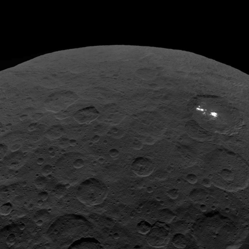 PIA22485: Last Look: Ceres This photo of Ceres and the bright regions in Occator Crater was one of the last views NASA's Dawn spacecraft transmitted before it depleted its remaining hydrazine and completed its mission. This view, which faces south, was captured on Sept. 1, 2018 at an altitude of 2,340 miles (3,370 kilometers) as the spacecraft was ascending in its elliptical orbit. At its lowest point, the orbit dipped down to only about 22 miles (35 kilometers), which allowed Dawn to acquire very high-resolution images in this final phase of its mission. Some of the close-up images of Occator Crater are shown here. Occator Crater is 57 miles (92 kilometers) across and 2.5 miles (4 kilometers) deep and holds the brightest area on Ceres, Cerealia Facula in its center and Vinalia Faculae in its western side. This region has been the subject of intense interest since Dawn's approach to the dwarf planet in early 2015. Dawn's mission is managed by JPL for NASA's Science Mission Directorate in Washington. Dawn is a project of the directorates Discovery Program, managed by NASA's Marshall Space Flight Center in Huntsville, Alabama. JPL is responsible for overall Dawn mission science. Orbital ATK Inc., in Dulles, Virginia, designed and built the spacecraft. The German Aerospace Center, Max Planck Institute for Solar System Research, Italian Space Agency and Italian National Astrophysical Institute are international partners on the mission team. For a complete list of Dawn mission participants, visit For more information about the Dawn mission, visit